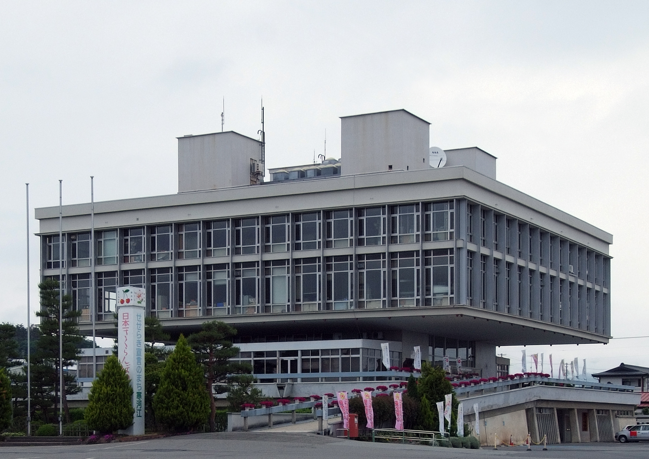 Sagae City Hall, Sagae Yamagata Japan, designed by Kisho Kurokawa.